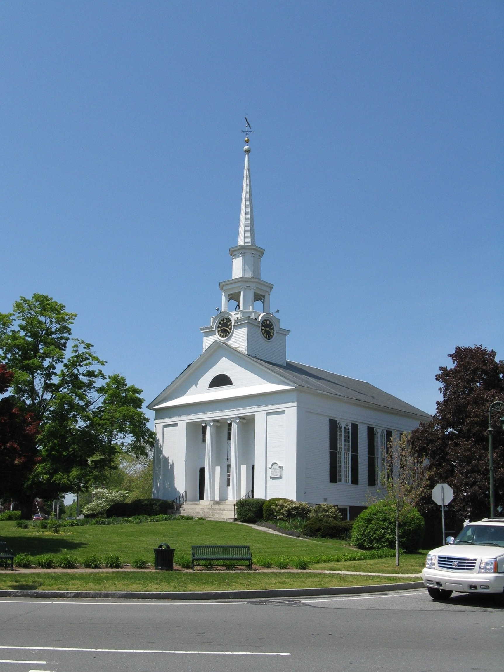 First Parish Unitarian Universalist Church in Chelmsford Massachusetts